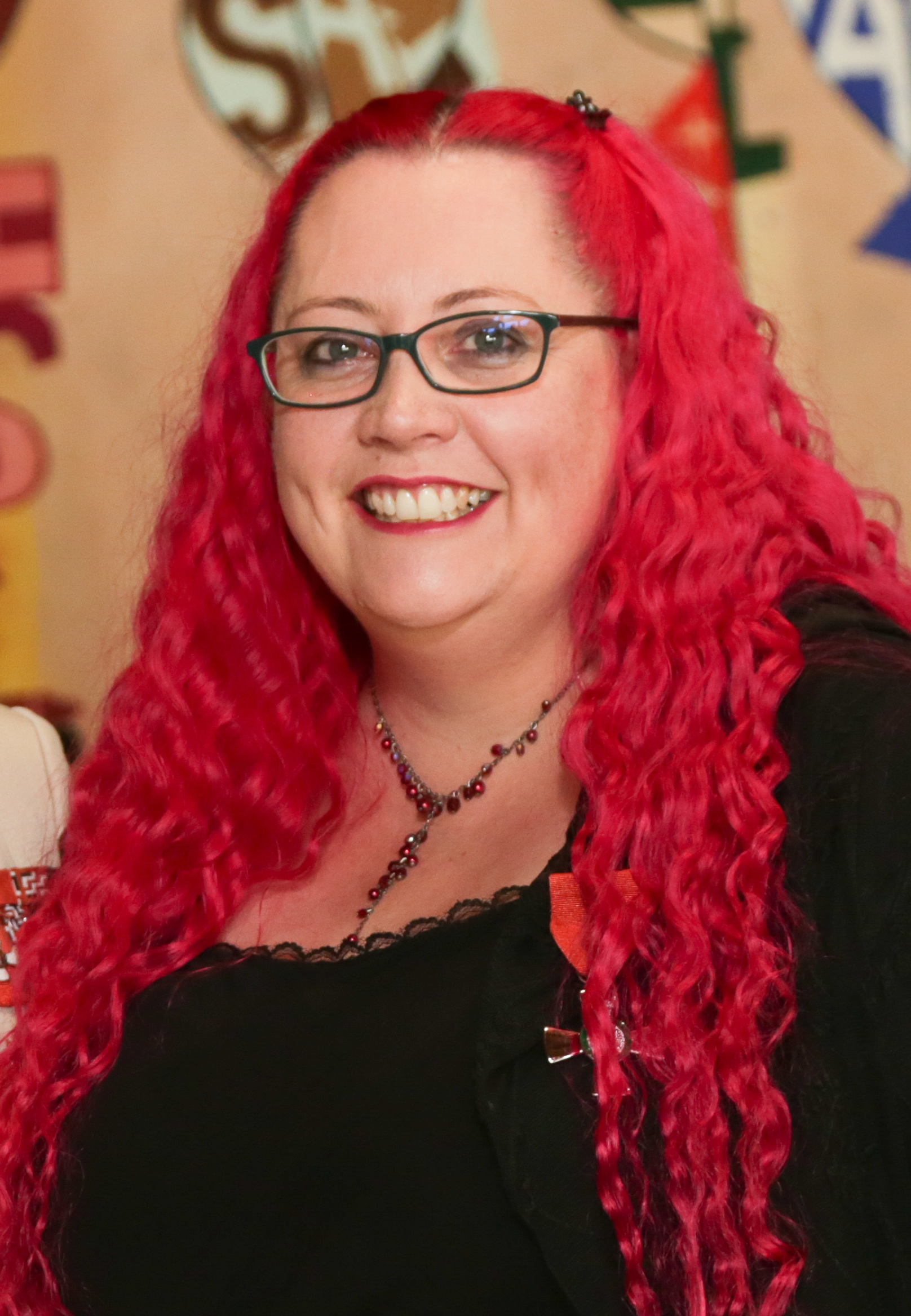 Siouxsie Wiles, after her investiture as MNZM, for services to microbiology and science communication, on 15 May 2019.